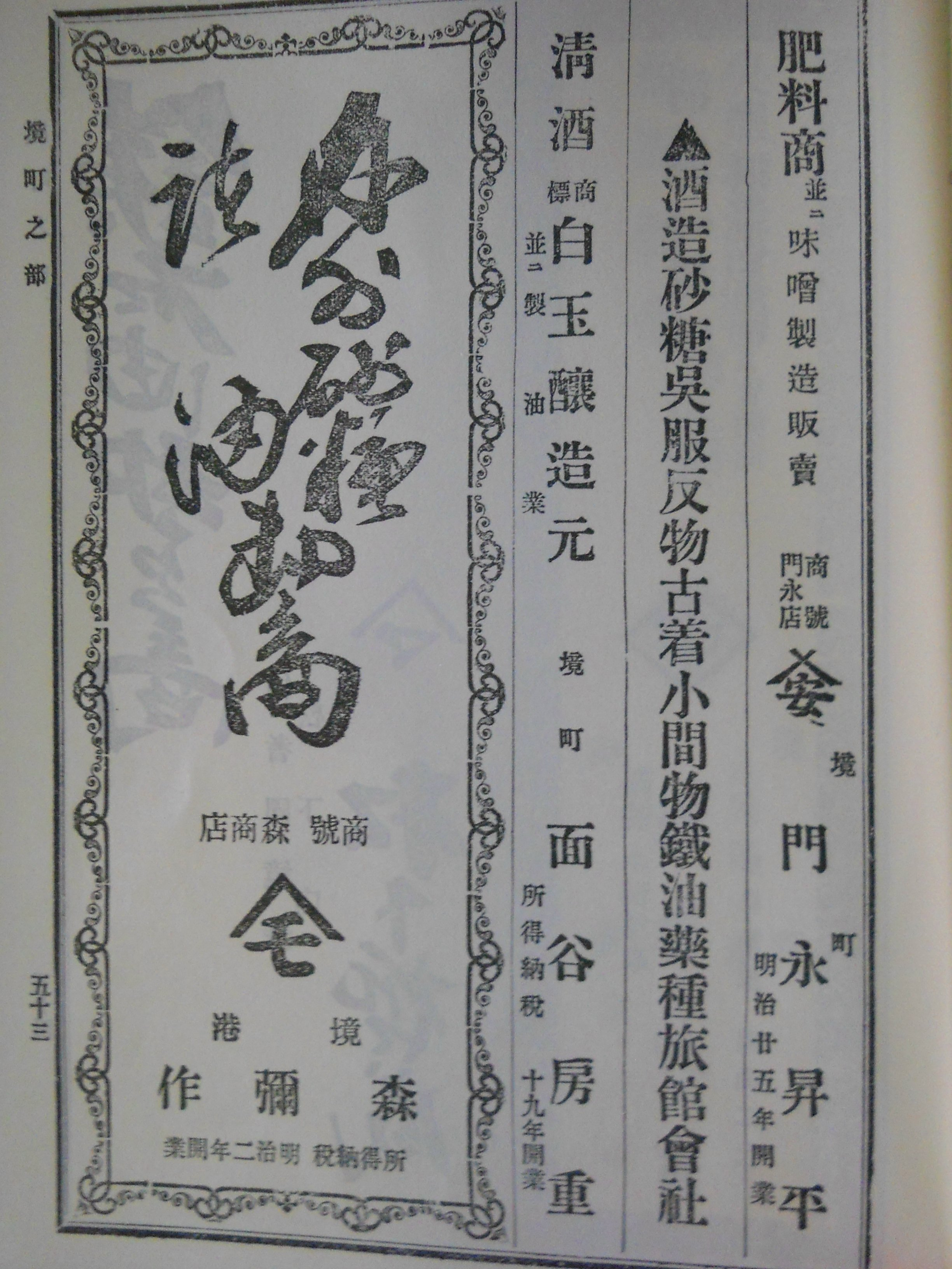 Sakae Town Store3